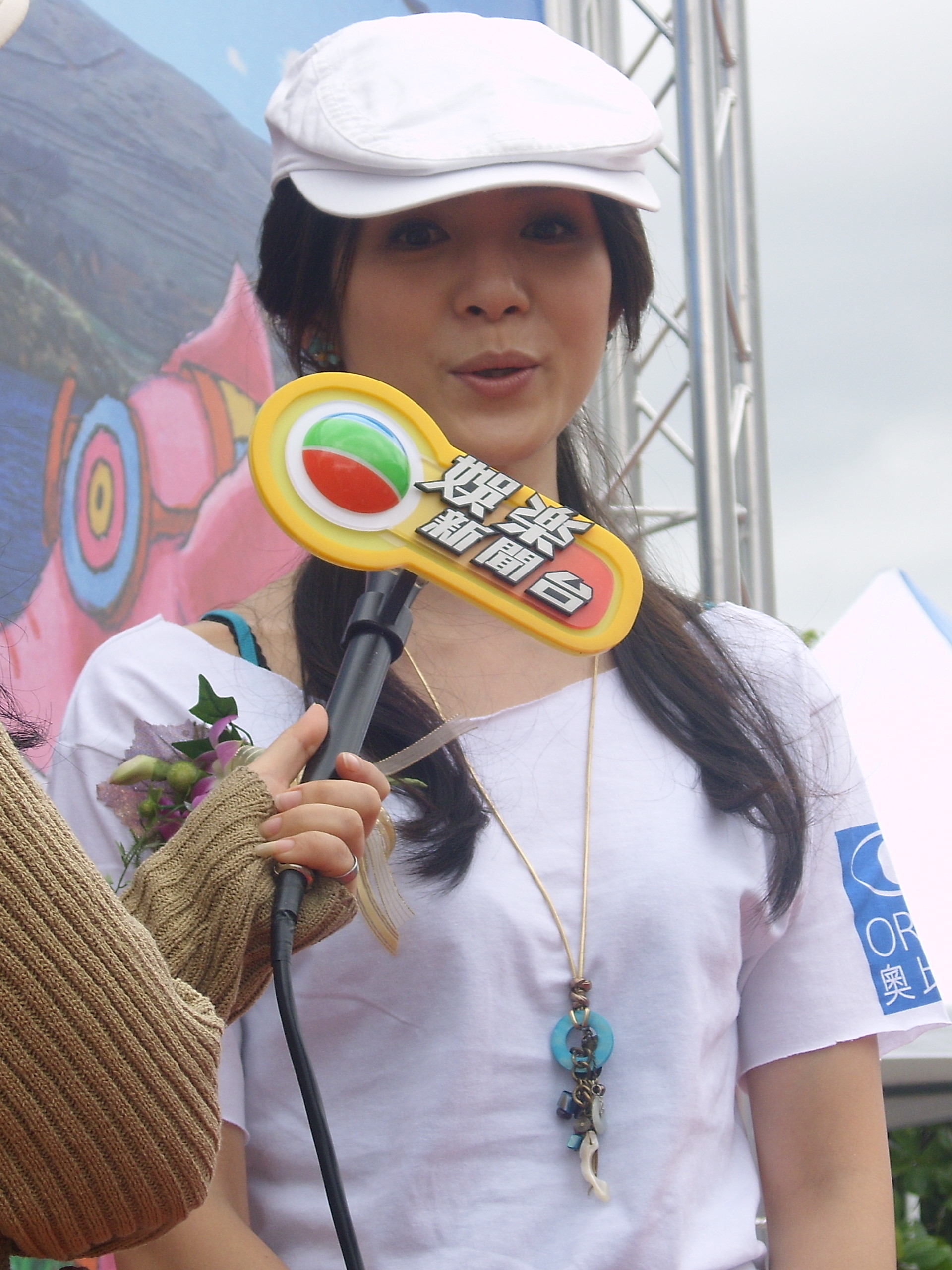 Charlie Yeung participated 2007 Taiwan Orbis & Standard Chartered Bank Charity Walking.